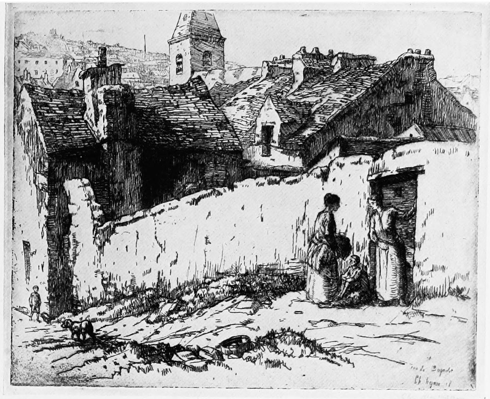 Un coin de Bagnolet, original etching printed by Edmond Sagot in Paris.